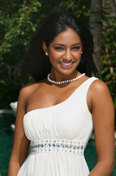 Miss Trinidad Tobago 2007 Valene Maharaj. Photo taken in Miss World 2007, Sanya 1/12/07.